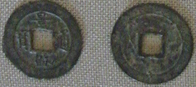 Coins in Cảnh Thịnh reign, Vietnam